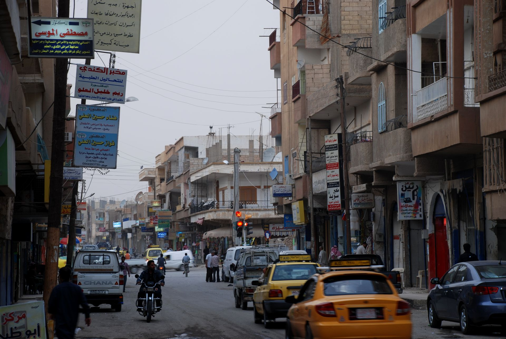 Ar-Raqqah, Syria, town center north of clock tower